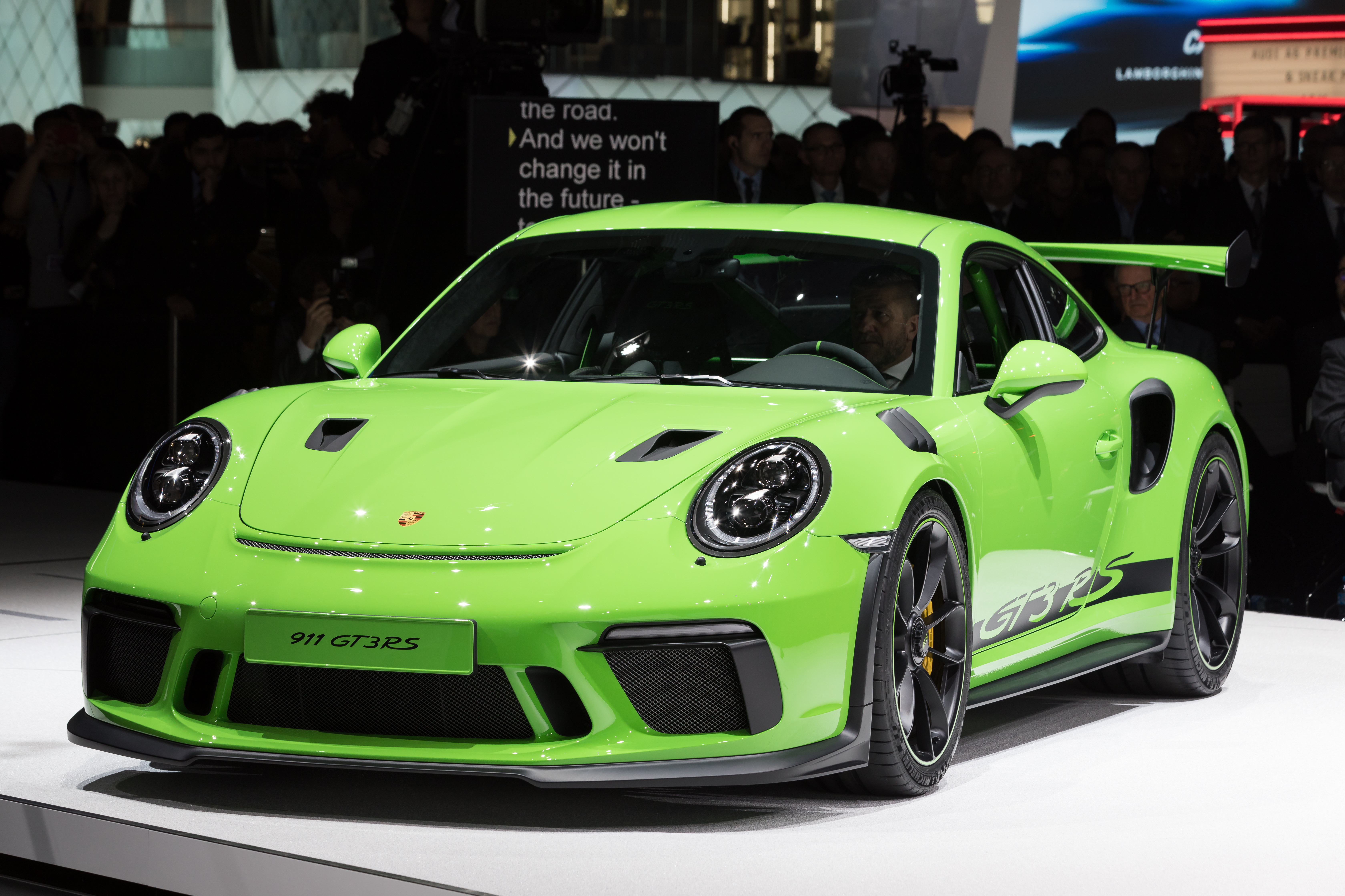 Geneva International Motor Show 2018, Porsche 911 GT3 RS